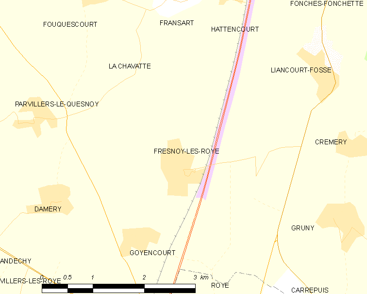 Map of French municipality Fresnoy-lès-Roye